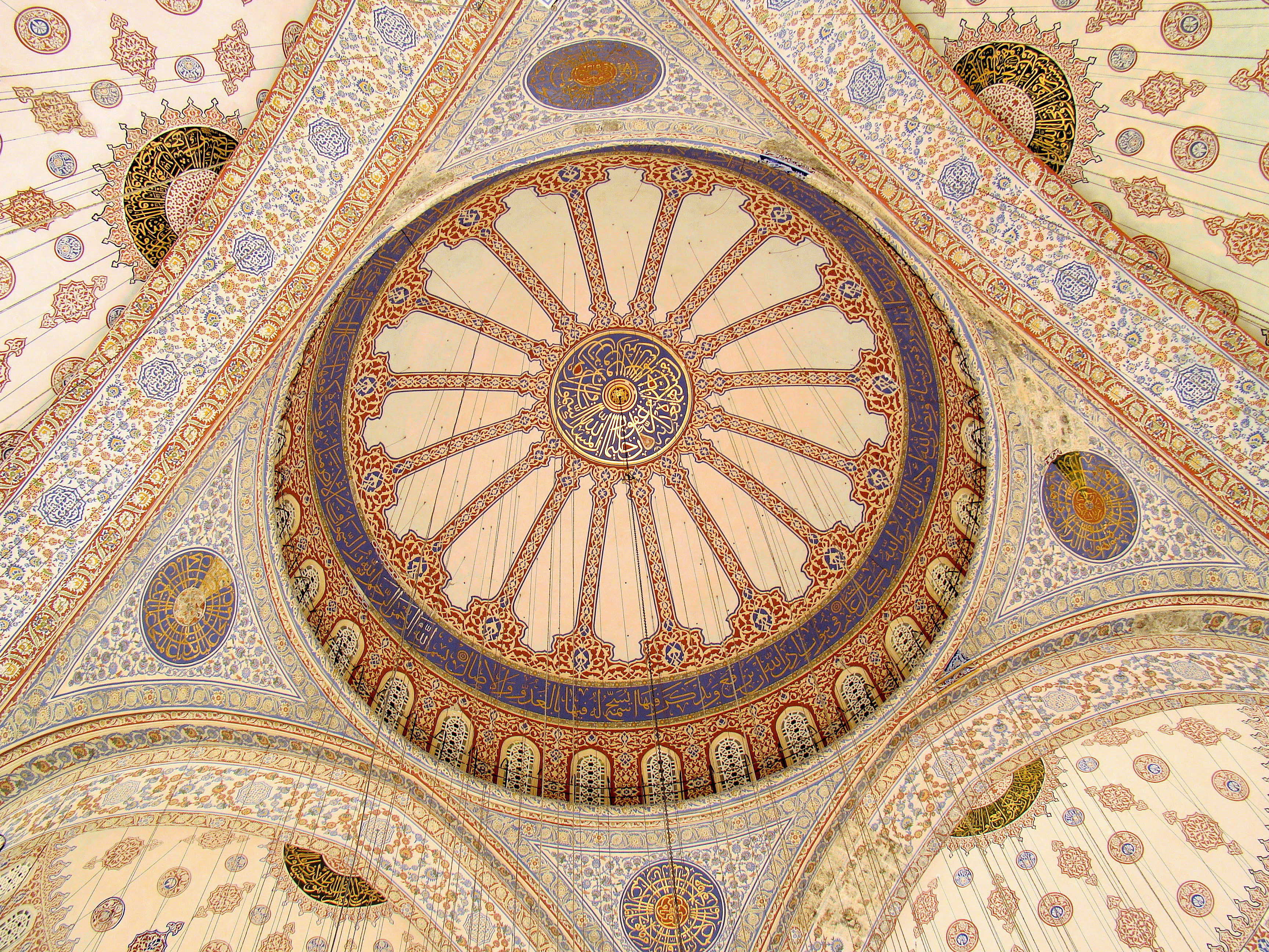 The main dome inside the Sultan Ahmed Mosque in Istanbul, Turkey, also called The Blue Mosque because of the blue tiles used in the interior decorations.